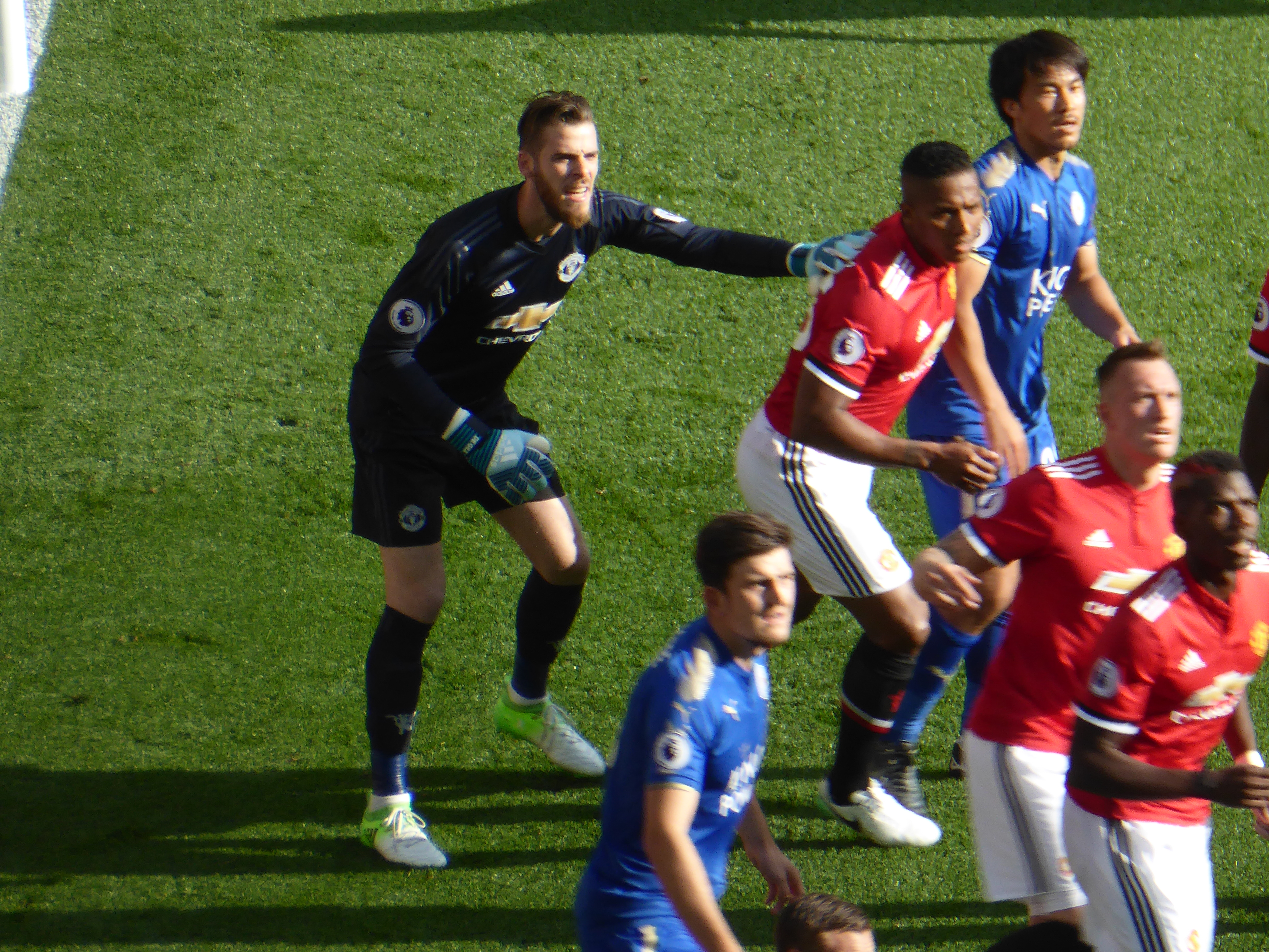 Manchester United v Leicester City (2-0), Premier League, Old Trafford, Manchester, Greater Manchester, England, 26 August 2017